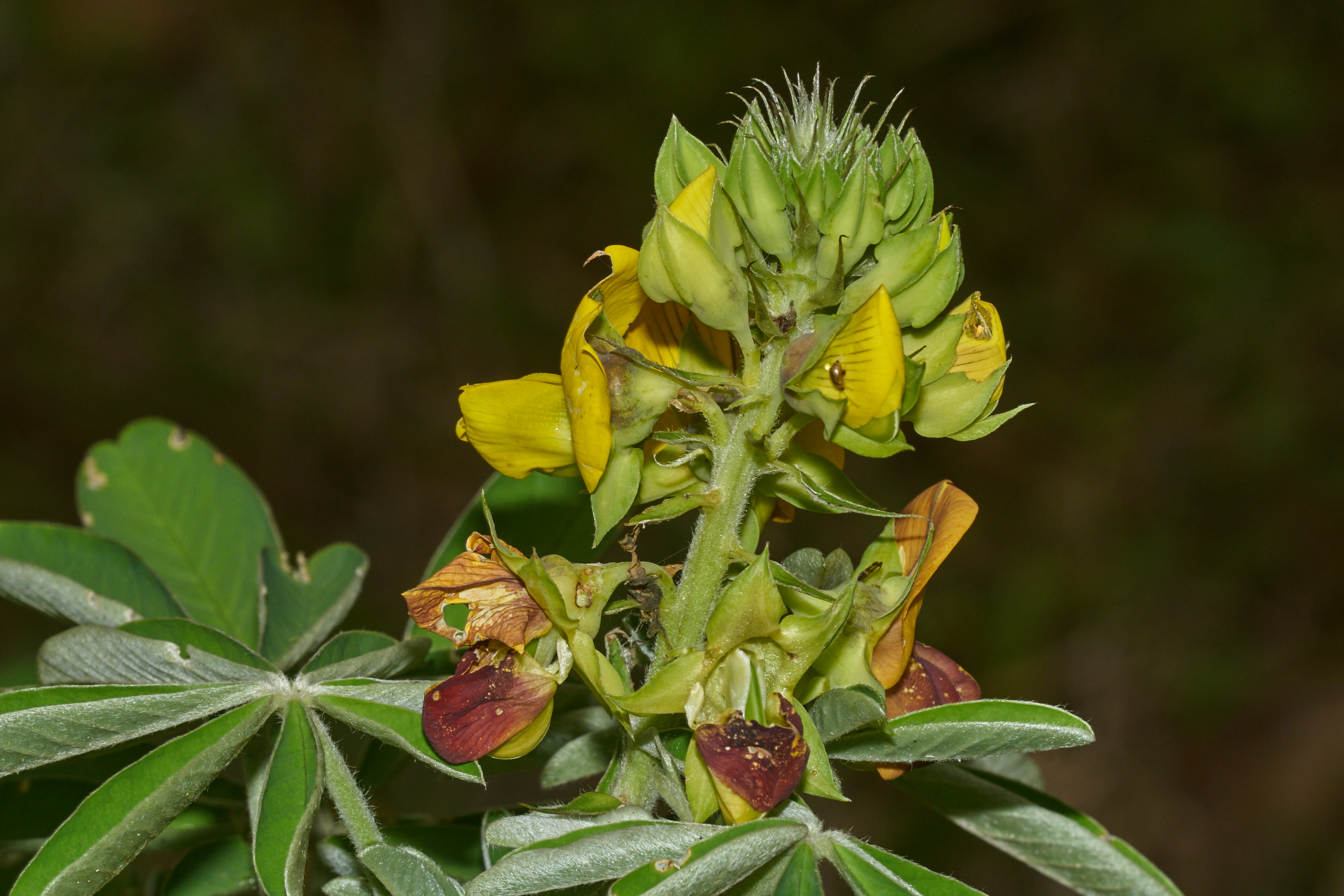 Crotalaria grahamiana, Rattlepod, is a herbaceous plants and woody shrubs in the family Fabaceae (subfamily Faboideae). it is a weed of urban creeks especially where farms were previously the land use. Crotalaria are one of many nitrogen fixing legumes used as green manure and in restoring low fertility soils. Crotalaria species are used as food plants by the larvae of some Lepidoptera species including Endoclita sericeus and Utetheisa ornatrix. (ID: Indian Flora)